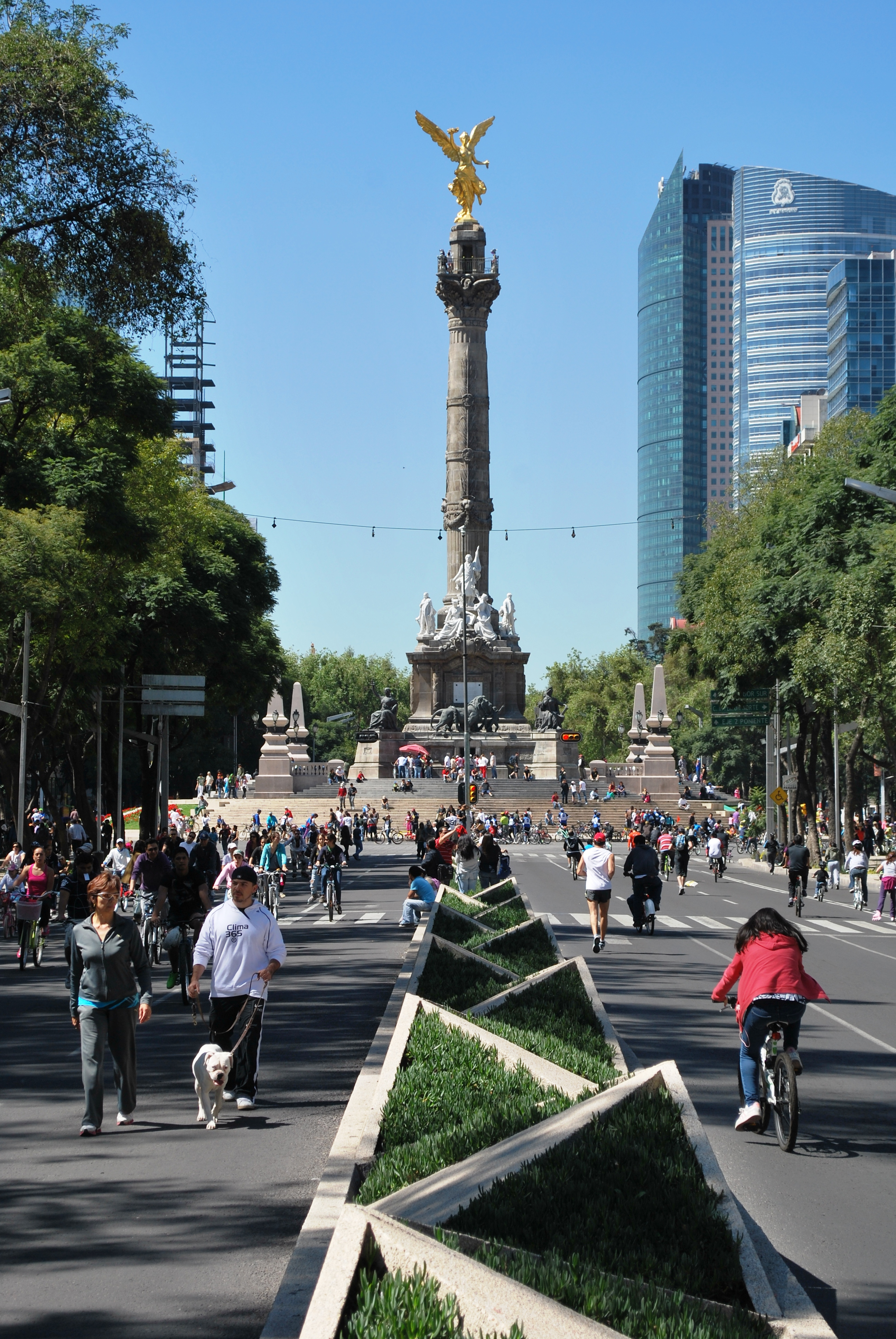 Bicyclists on Paseo de la Reforma near Angel in Mexico City